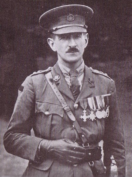 Ernest Achey Loftus in his Study at Barking Abbey School.jpg